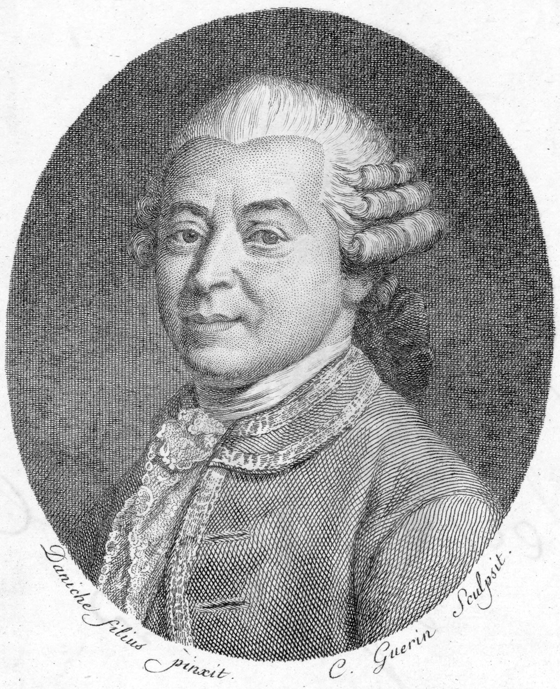 Portrait of Johann Andreas Silbermann (* 1712; † 1783)